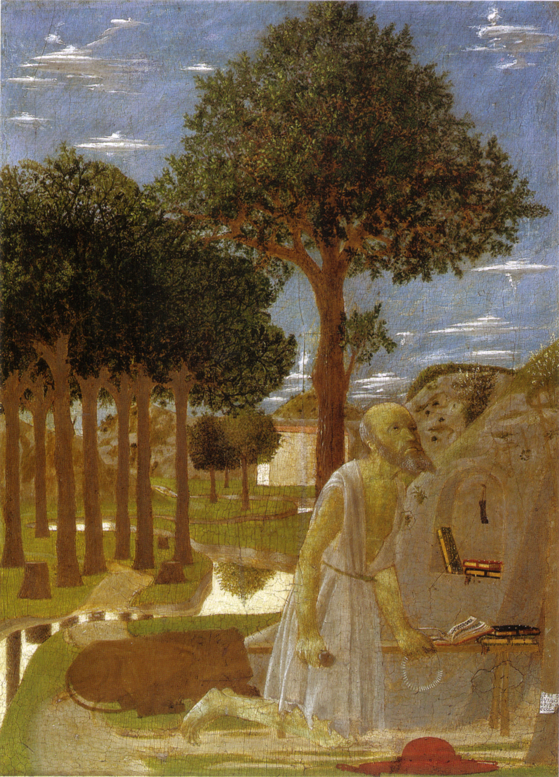 PIERO della FRANCESCA The Penance of St. Jerome Panel, 51 x 38 cm Staatliche Museen, Berlin